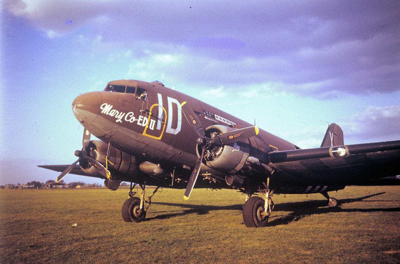 C-47 Skytrain nicknamed "Mary Co-Ed II" of the 434th Troop Carrier Group, Aldermaston Airfield, England.